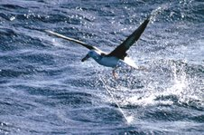 Black-browed Albatross Thalassarche melanophris caught on a long-line.